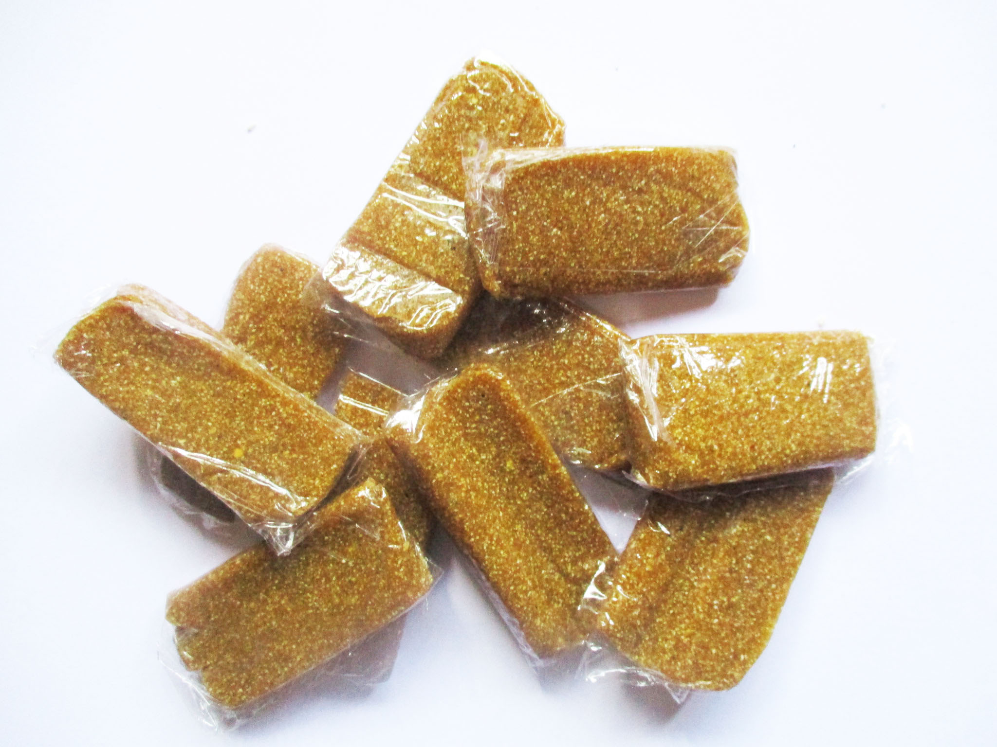 Jenang krasikan is typical food from Special Region of Yogyakarta, which is made from glutinous rice flour and palm sugar.